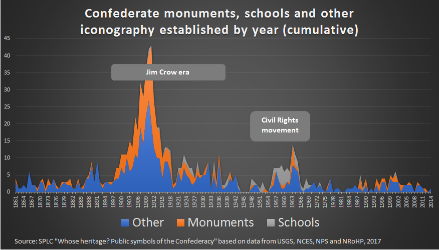 Confederate monuments timeline